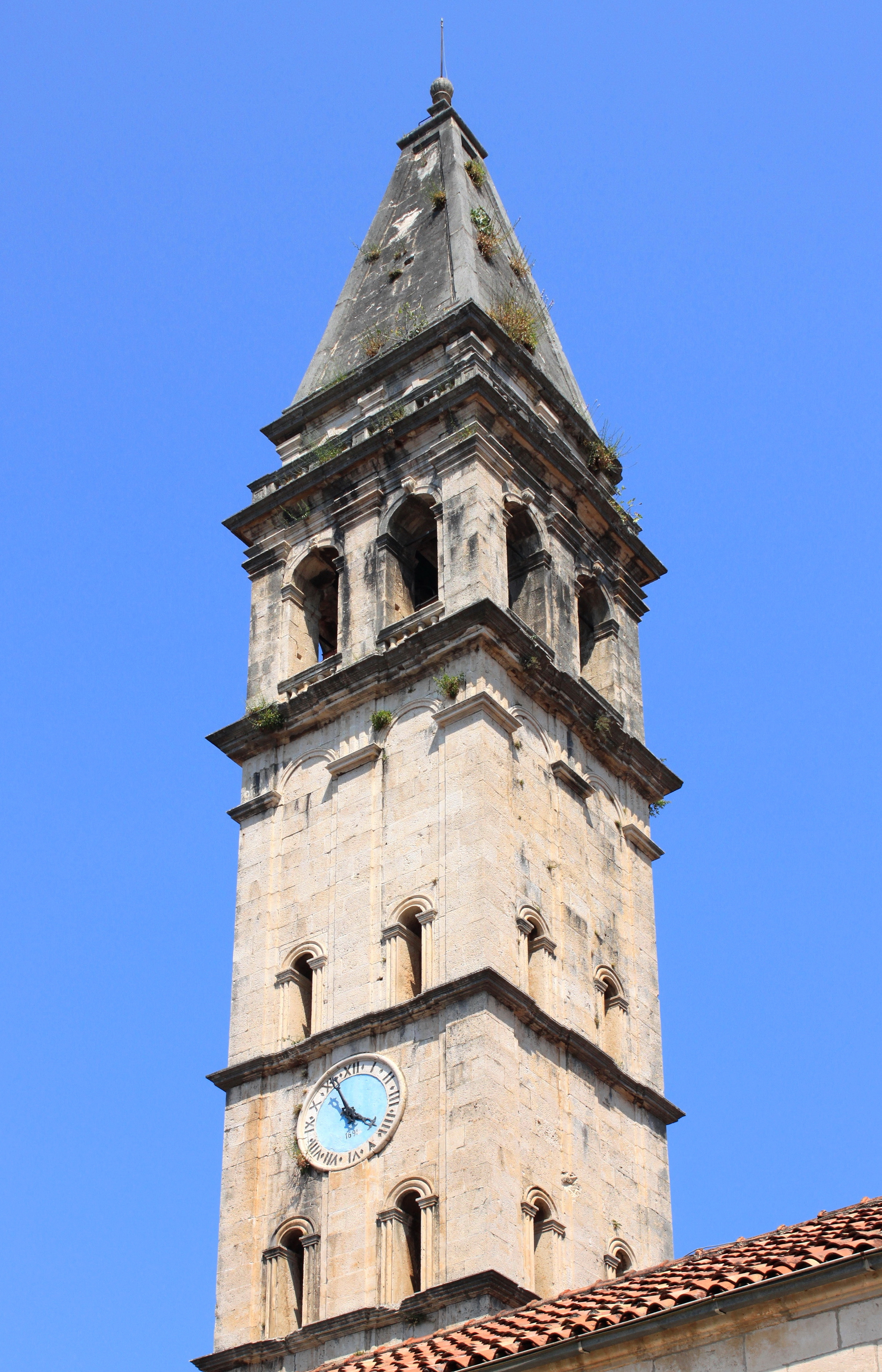 Church of St. Nicholas - belfry. Perast, Montenegro.